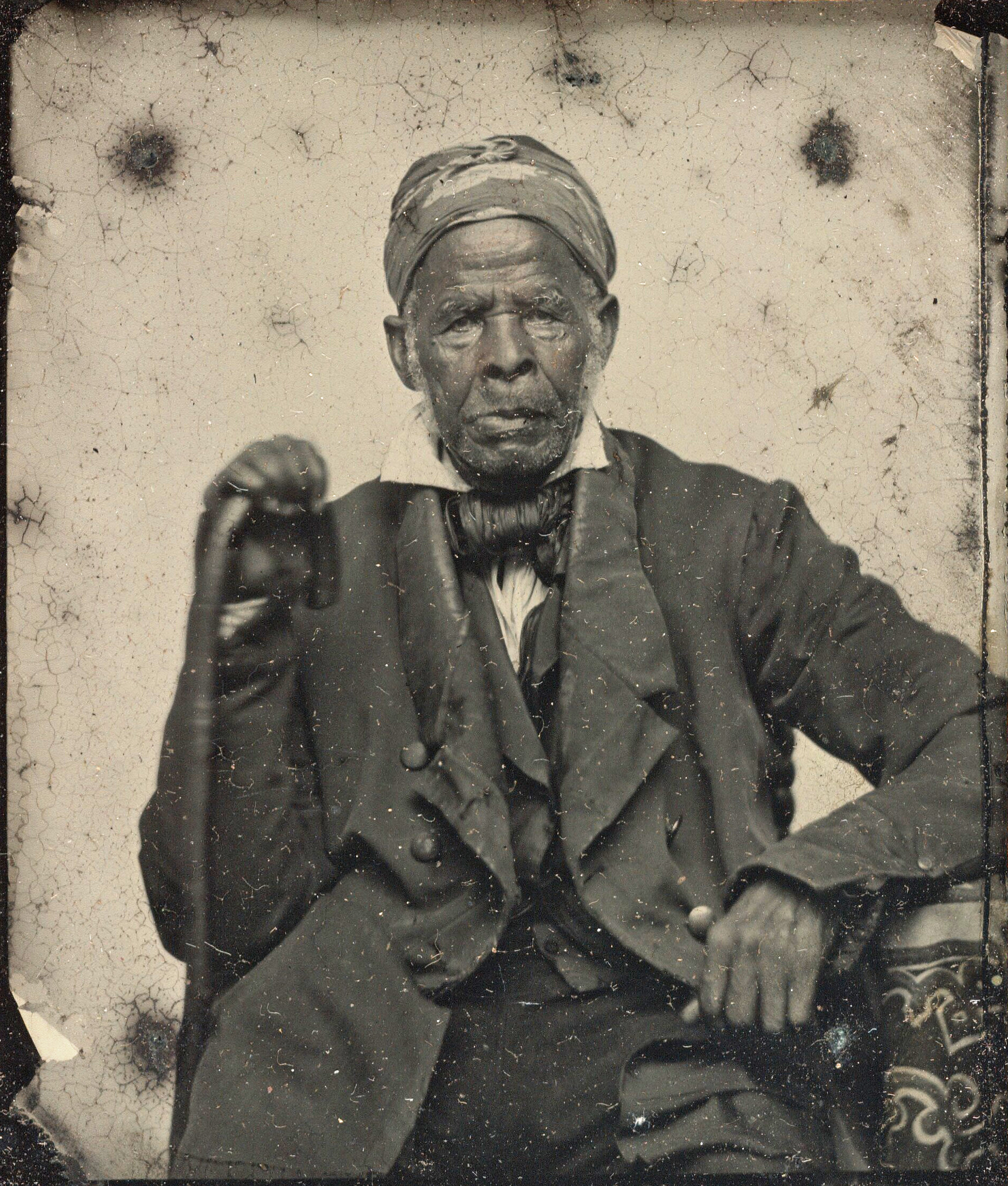 "Uncle Marian, a slave of great notoriety, of North Carolina," ambrotype daguerreotype, by unknown photographer. Half-length formal portrait. Identification from manuscript note found underneath the plate. Image courtesy of the Randolph Linsly Simpson African-American Collection, Beinecke Rare Book & Manuscript Library, Yale University.[1]